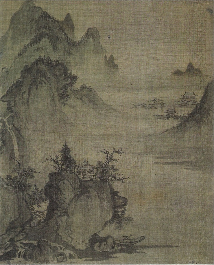 sasipalgyeongdo is a collection of eight paintings that depict the eight seasons of a mountain and water landscape